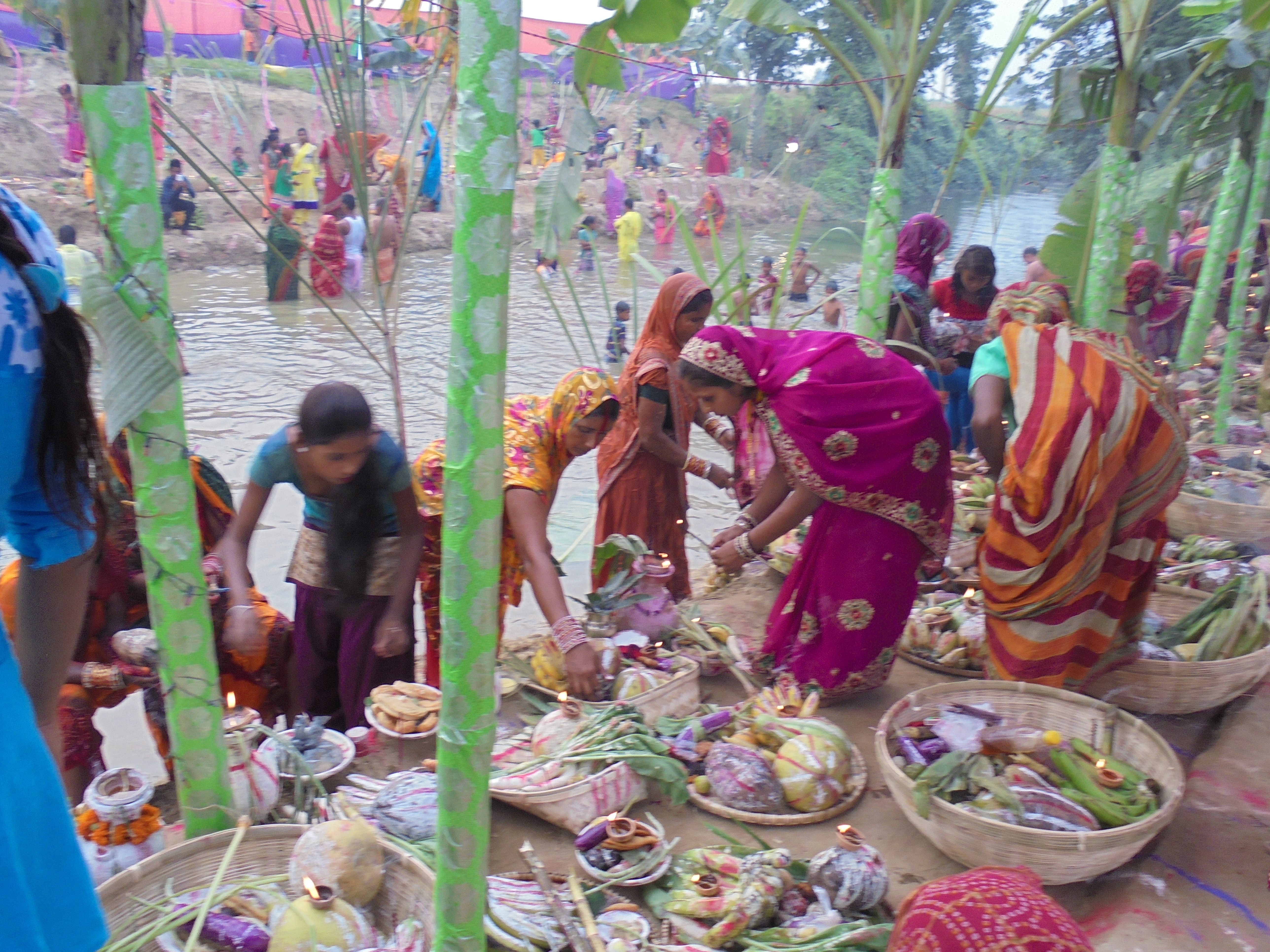 Chhath (Devanagari: छठ, छठी, छठ पर्व, छठ पुजा, डाला छठ, डाला पुजा, सूर्य षष्ठी) is an ancient Hindu Vedic festival dedicated to the Hindu Sun God, Surya and Chhathi Maiya (ancient Vedic Goddess; Usha - wife of Sun God). The Chhath Puja is performed in order to thank Surya for sustaining life on earth and to request the granting of certain wishes. This festival is observed by Nepalese people and Indian people along with their diaspora. The Sun, considered as the god of energy and of the life-force, is worshipped during the Chhath festival to promote well-being, prosperity and progress. In Hinduism, Sun worship is believed to help cure a variety of diseases, including leprosy, and helps ensure the longevity and prosperity of family members, friends, and elders. The rituals of the festival are rigorous and are observed over a period of four days. They include holy bathing, fasting and abstaining from drinking water (Vratta), standing in water for long periods of time, and offering prashad (prayer offerings) and arghya to the setting and rising sun.